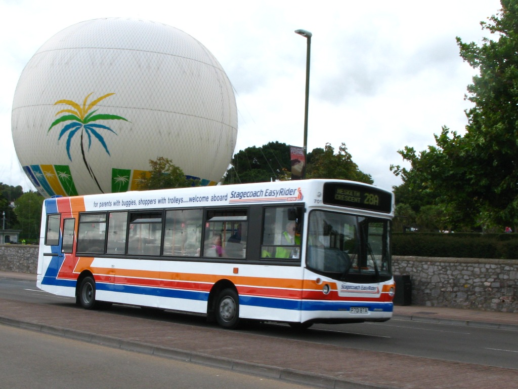 Alexander-Volvo B6LE bus P701 BTA was delivered to Bayline in 1997 (fleet number 701) for services around Torbay. It has been preserved in its Stagecoach Easyrider livery and is seen here passing the observation balloon at Abbey Sands in Torquay.